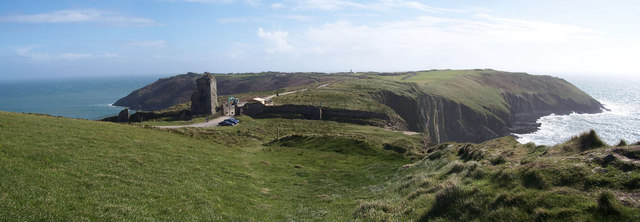 Old Head of Kinsale, Co. Cork, Ireland The Head is controversially closed to the public and contains a golf course. The "Lusitania" was torpedoed, just off the Head by a German submarine in 1915